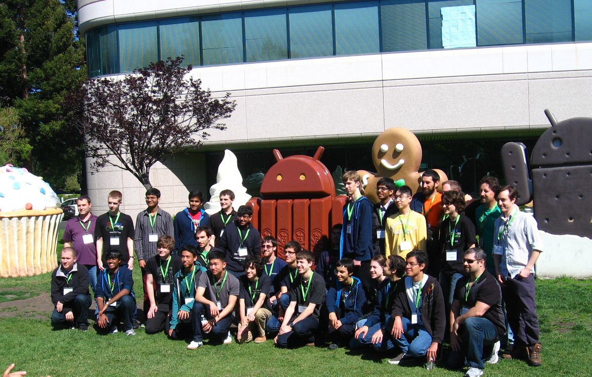 The photo was made on Google Code-in 2013 Grand Prize trip.